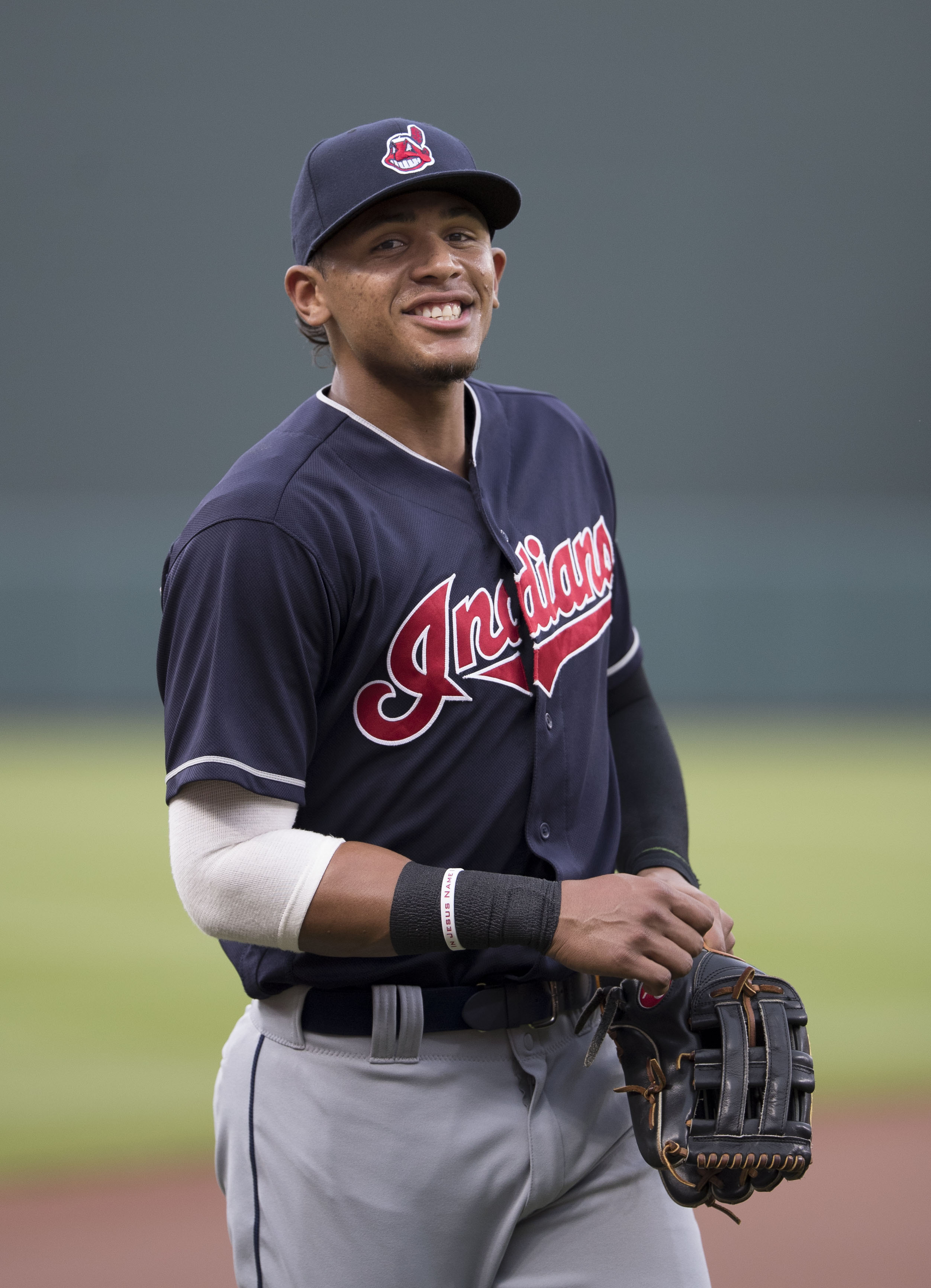 Indians at Orioles 6/22/17